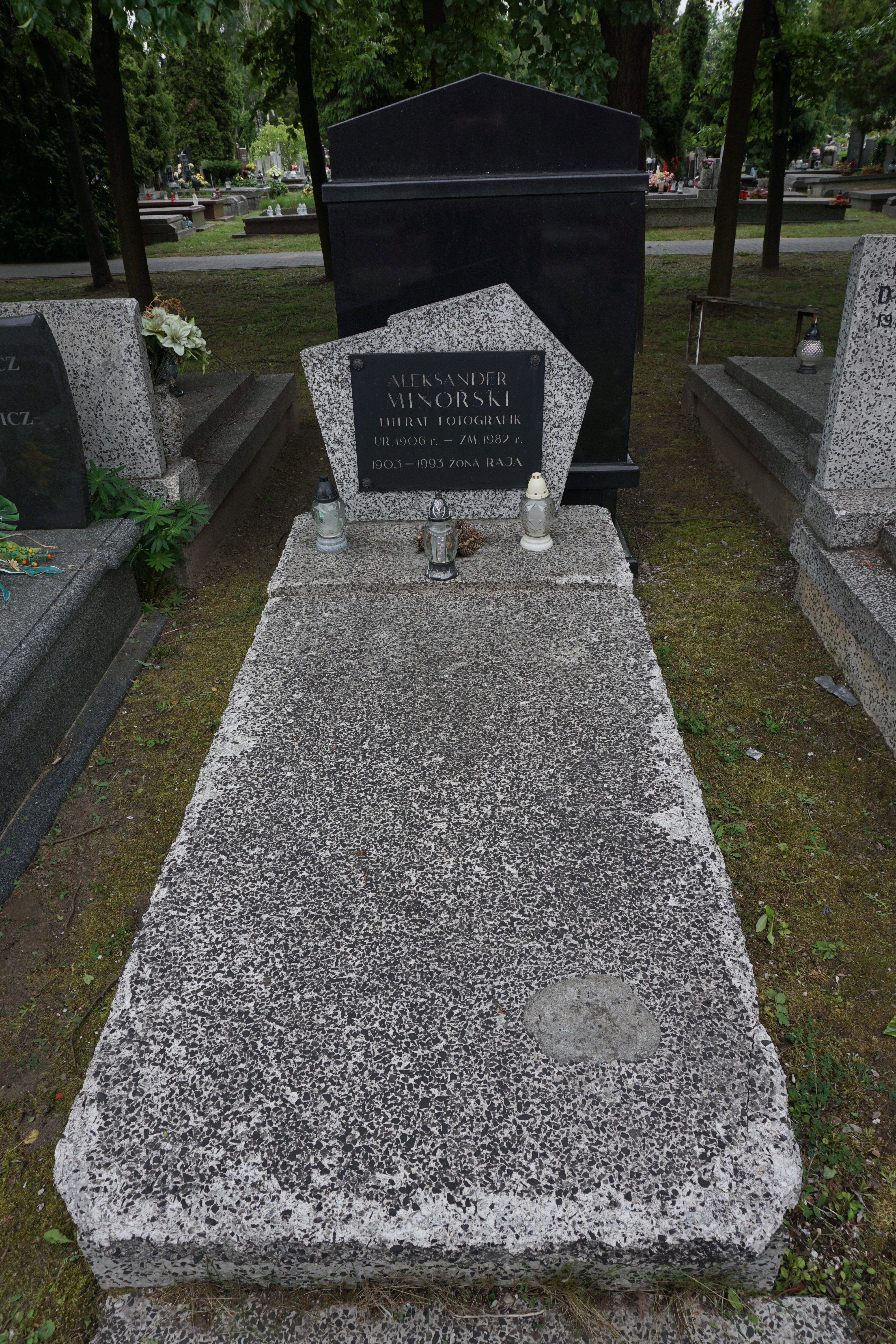 The grave of Aleksander Minorski at the North Municipal Cemetery in Warsaw (section E-VII-2, row 3, grave 14)